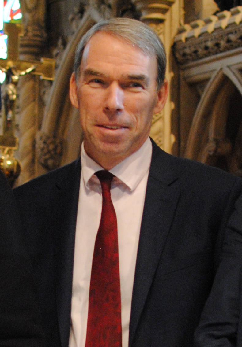 Professor Dion Morton, at the unveiling of Birmingham Civic Society's Blue Plaque, honouring their founder chairman, Sir Gilbert Barling, at the Church of St Augustine of Hippo, Edgbaston, Birmingham, England.